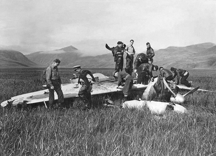 A US military recovery crew on July 11, 1942 swarms over an Imperial Japanese Navy Zero aircraft which crashed on Akutan Island, Alaska on June 4, 1942 after bombing Dutch Harbor. The pilot, Tadayoshi Koga, was killed in the crash. The soft marshy surface prevented serious damage to the aircraft. The plywood drop fuel tank was torn from the Zero as it slid across the marsh. The aircraft was moved to the US and later used for intelligence purposes by the US.